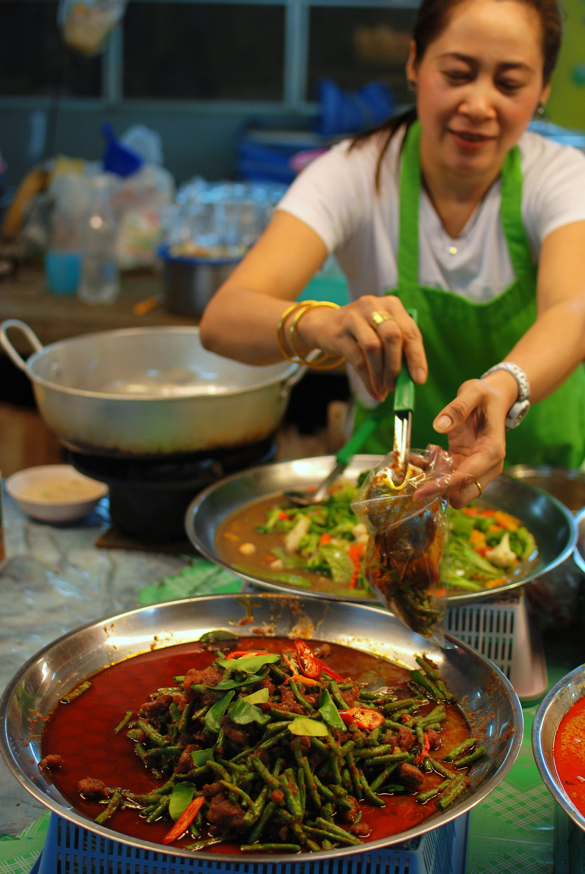 Mu phat phrik khing (Thai script: หมูผัดพริกขิง): literally translated it means "pork fried chillies ginger" is pork fried with yardlong beans and kaffir lime leaves in a sweet chilli paste which, strangely enough, does not contain any ginger. Sometimes red curry paste is used instead of the phrik khing chilli paste. The yardlong beans (thua fak yao) in this dish are still semi raw as is usual in Thailand. Sliced raw chillies are often sprinkled over the dish for added colour and taste. The photo was made at a market stall in Thanin market, Chiang Mai, which sells dishes to take home.